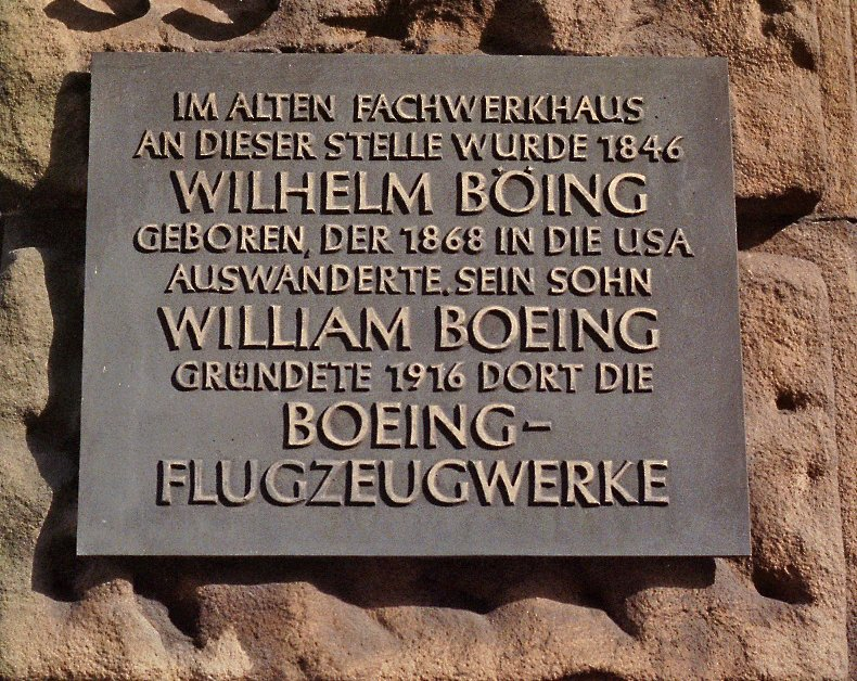 Memorial tablet for Wilhelm Böing, the father of William Boeing. William Boeing was the founder of Boeing aerospace corporation in 1916. The tablet is mounted at a house in Hagen-Hohenlimburg (North Rhine-Westphalia, Germany), house number: Lenneuferstraße 33.